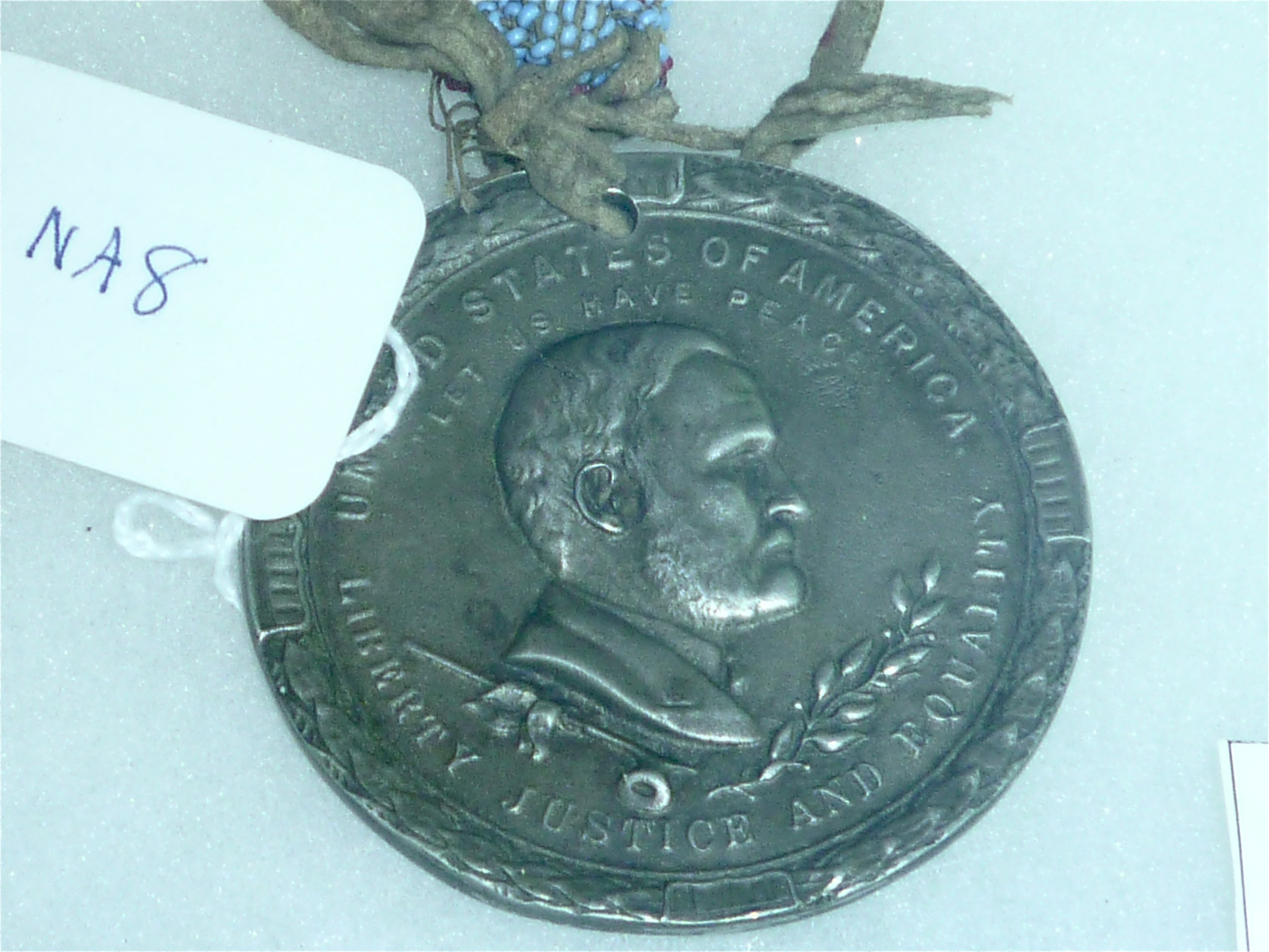 1871 Peace Medal. Obverse, President Ulysses S. Grant. "United States of America Let Us Have Peace Liberty Justice and Equality. Photographed at Holt Museum, Traveler's Rest State Park, Lolo, Montana.